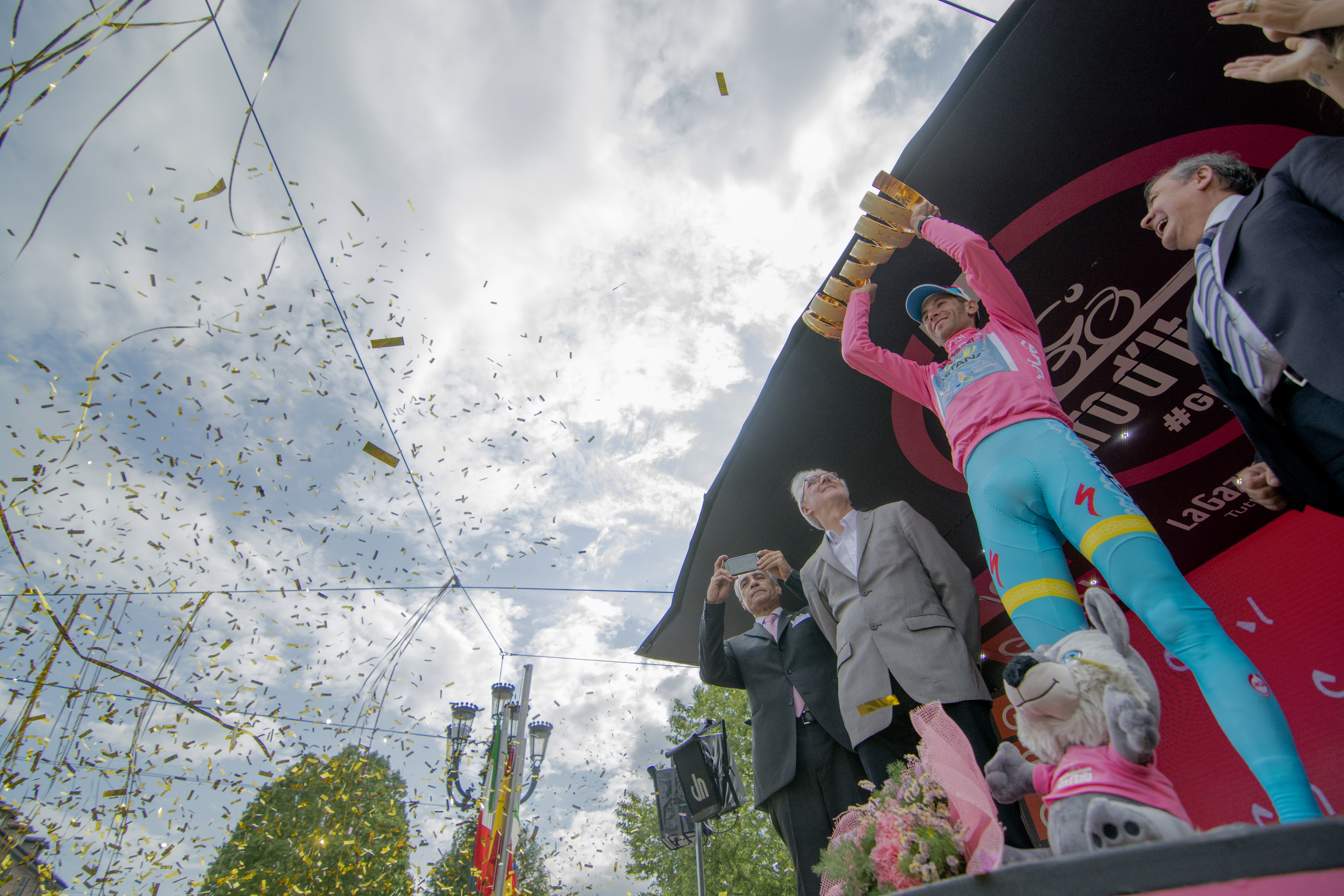 Vincenzo Nibali rises the "Trofeo senza fine" on the 99th Giro d'Italia podium.